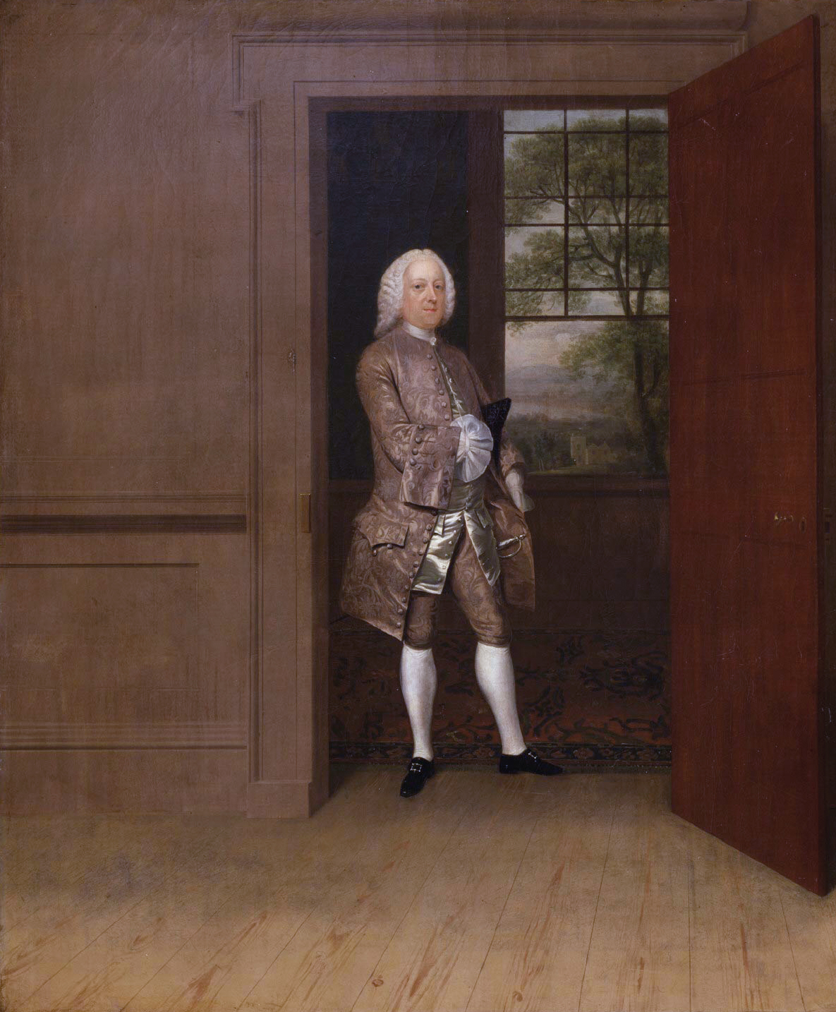 Thomas Penn oil on canvas 91.8 x 79.1 cm 1752, made in England painted at the occasion of his marriage to Juliana Fermor